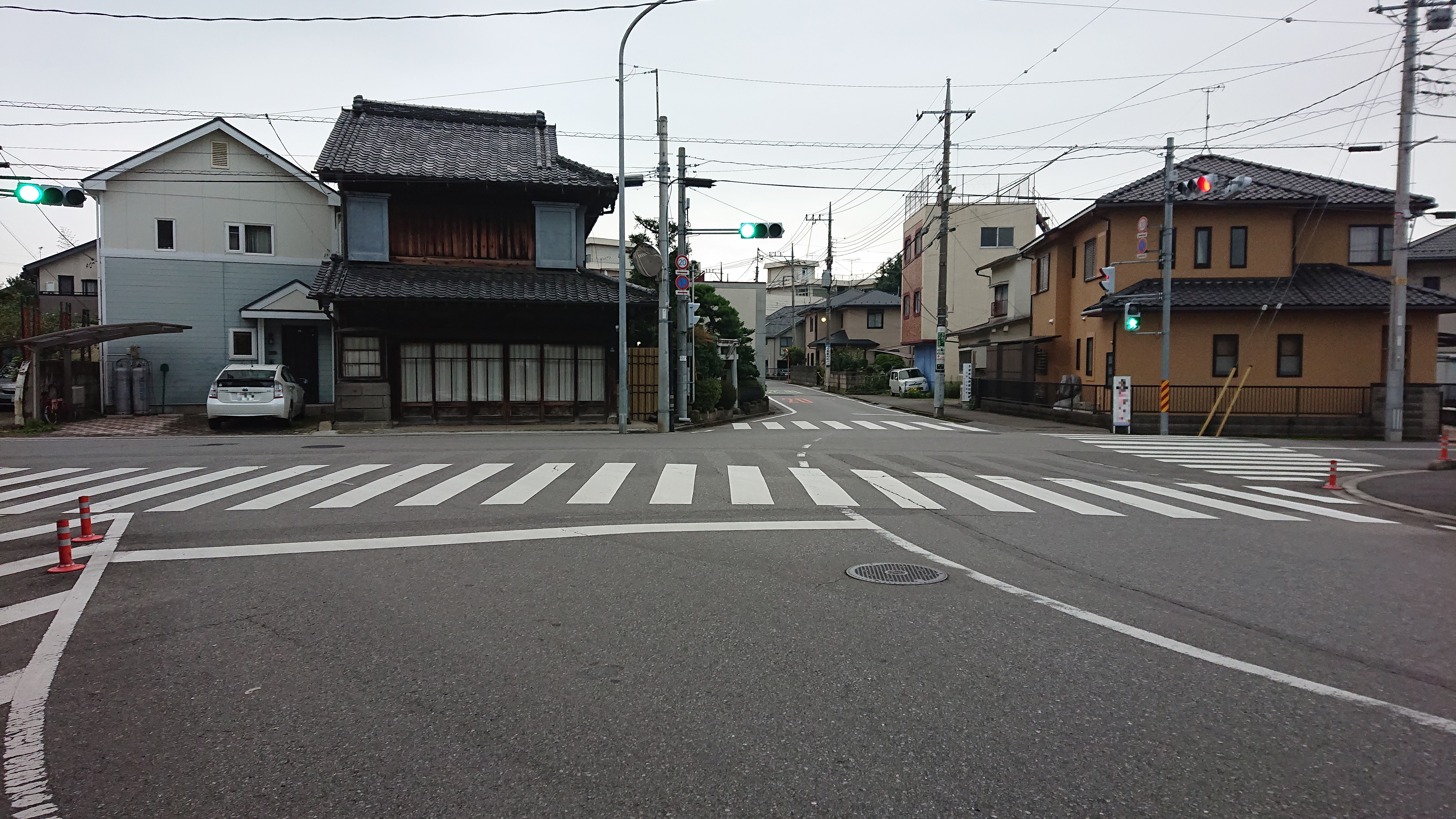 This is Rokudo Tsuji in Utsunomiya, Tochigi, Japan.